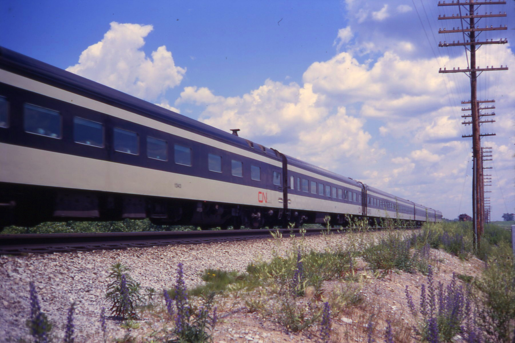 A Canadian National Railway Rapido service near Pickering, Ontario, in 1968.